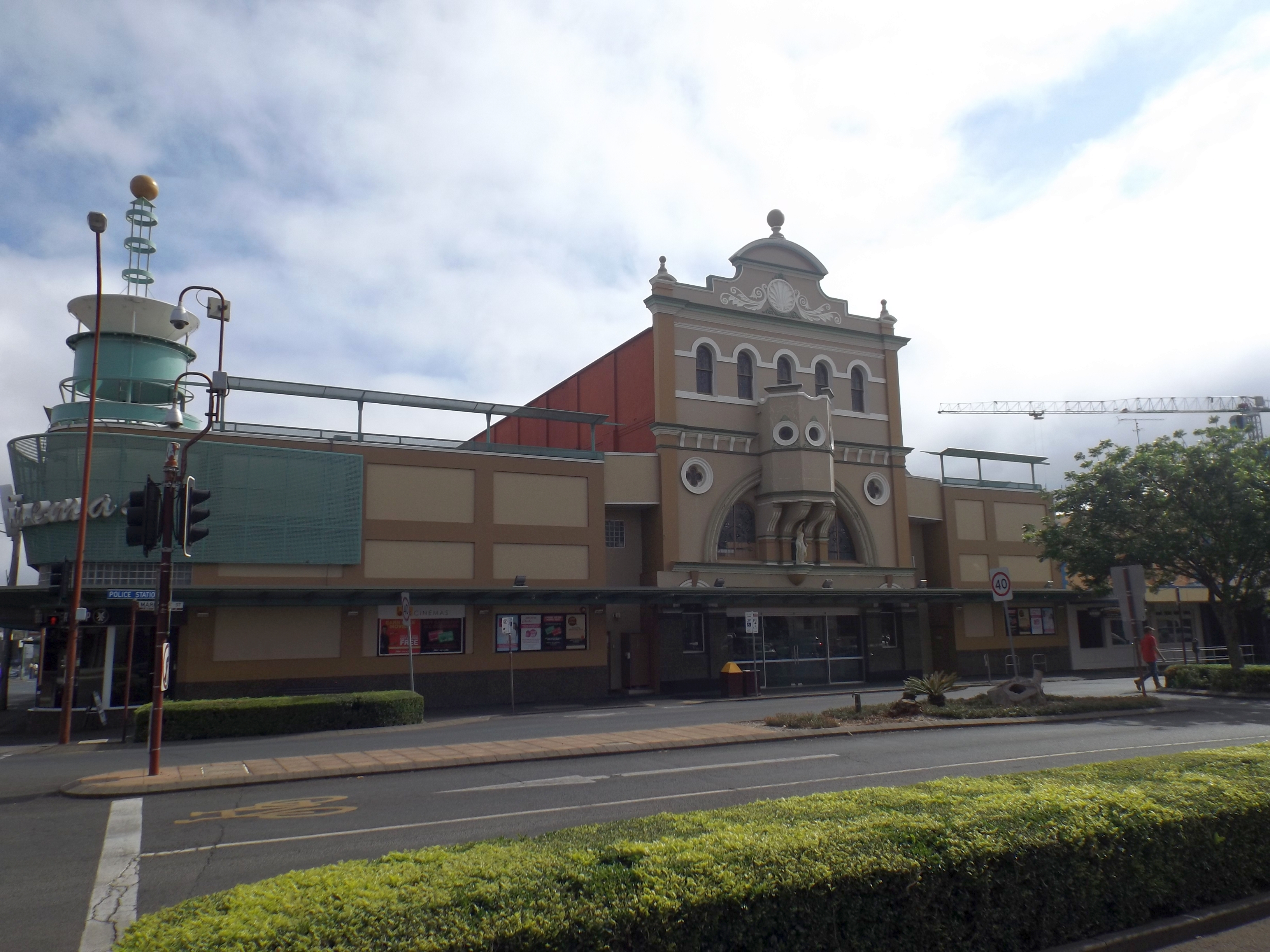 Photo of Strand Theatre on Margaret Street in Toowoomba City, Queensland, Australia.